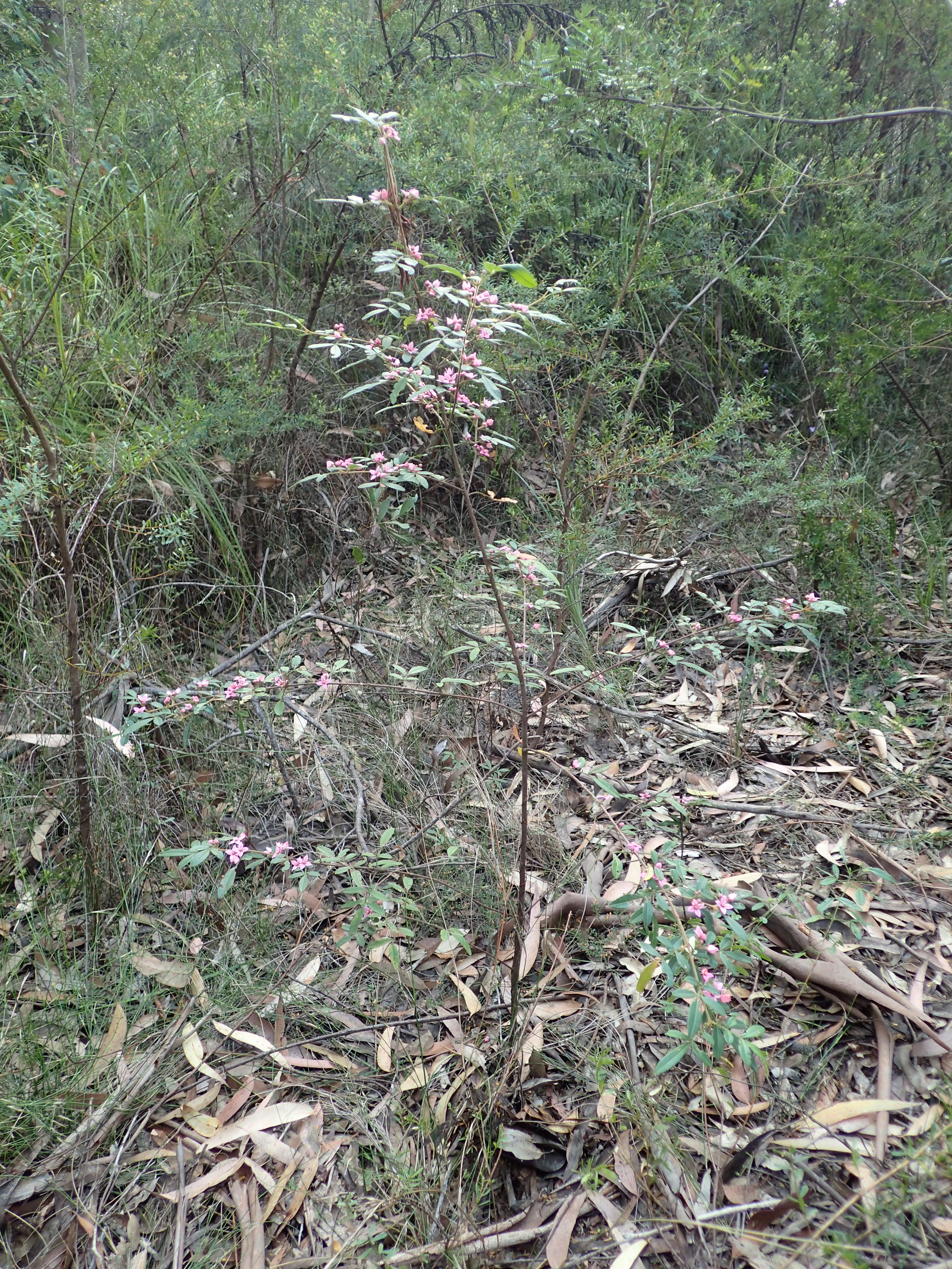 Boronia umbellata in the Conglomerate Forest, near Nana Glen